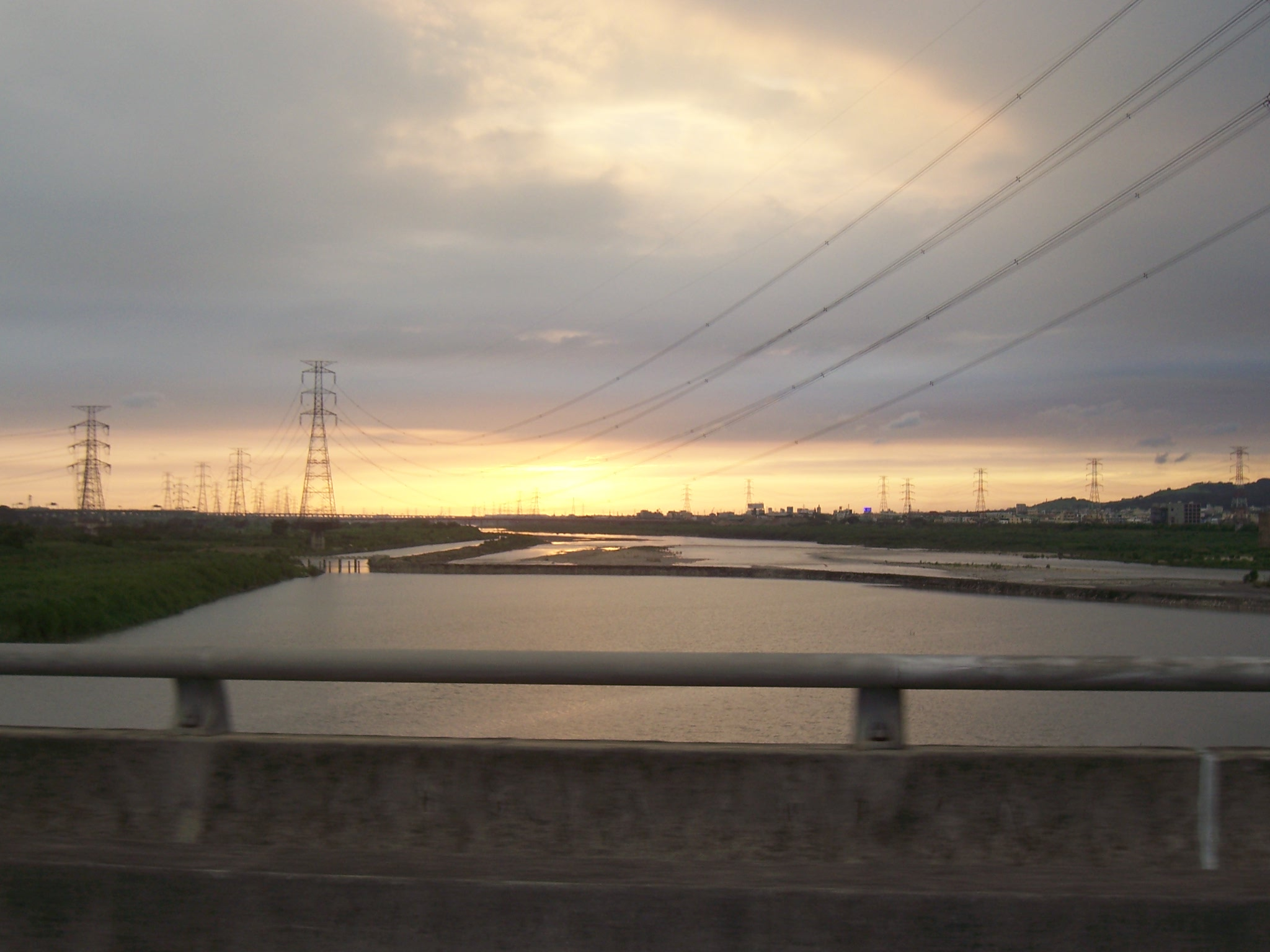 Sunset of Wu River.The photo was taken at the bridge of Highway No.74,it lies between Changhua City and Wuri District in Taiwan.